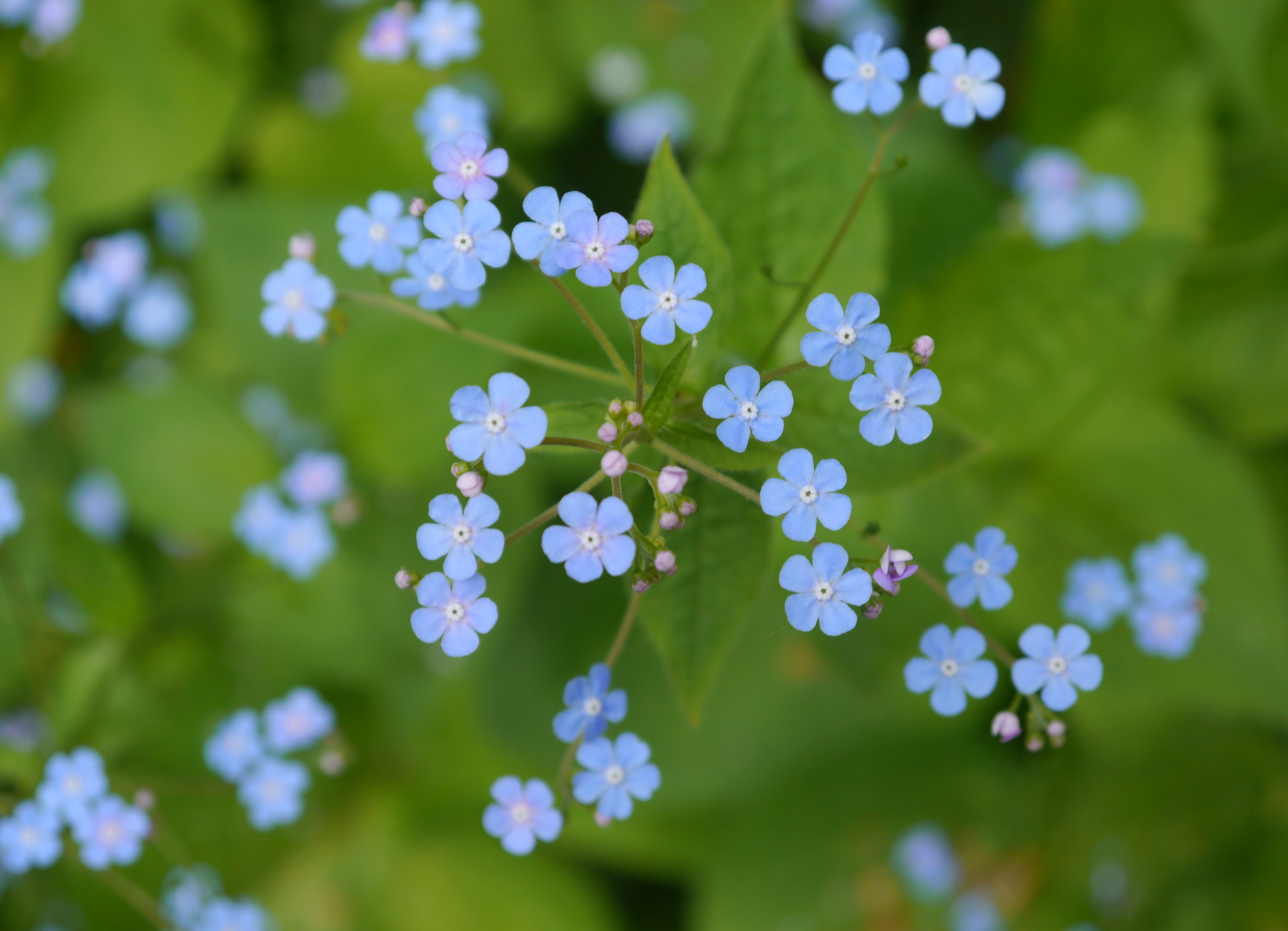 "God gave us another Gift # 9 - Blue Flower - Novalis", Photograph by Christiaan Tonnis, May 2013